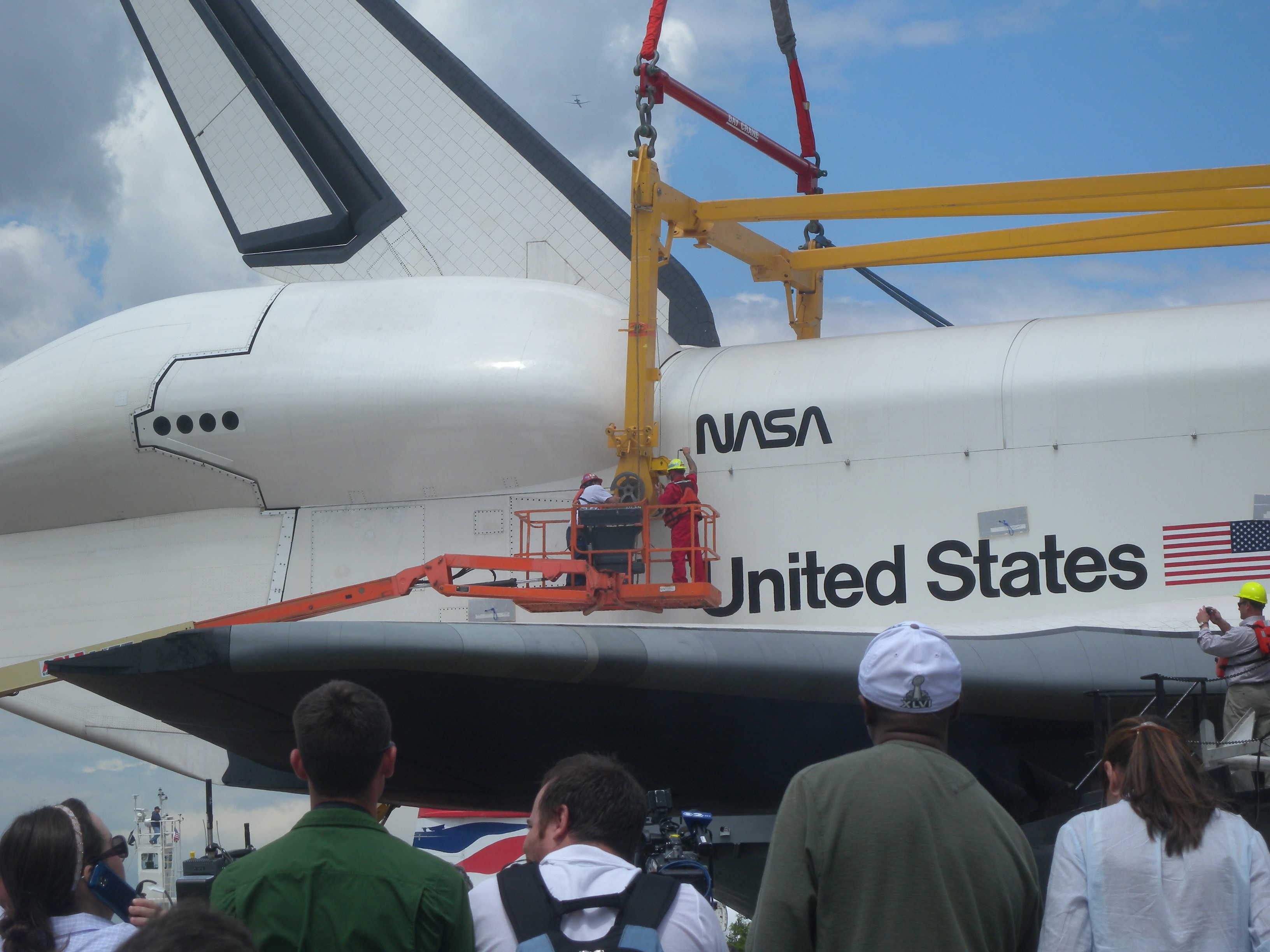 Looking north as strongback is attached.